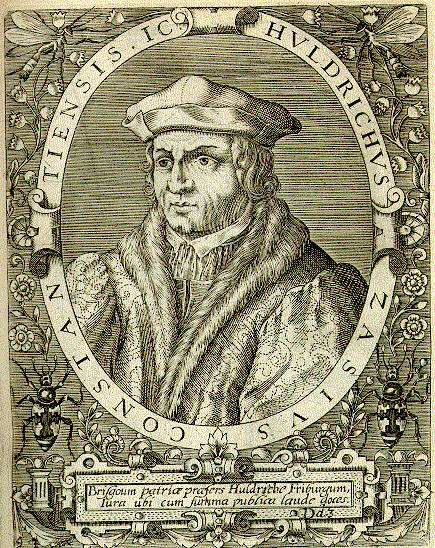 Ulrich Zasius.